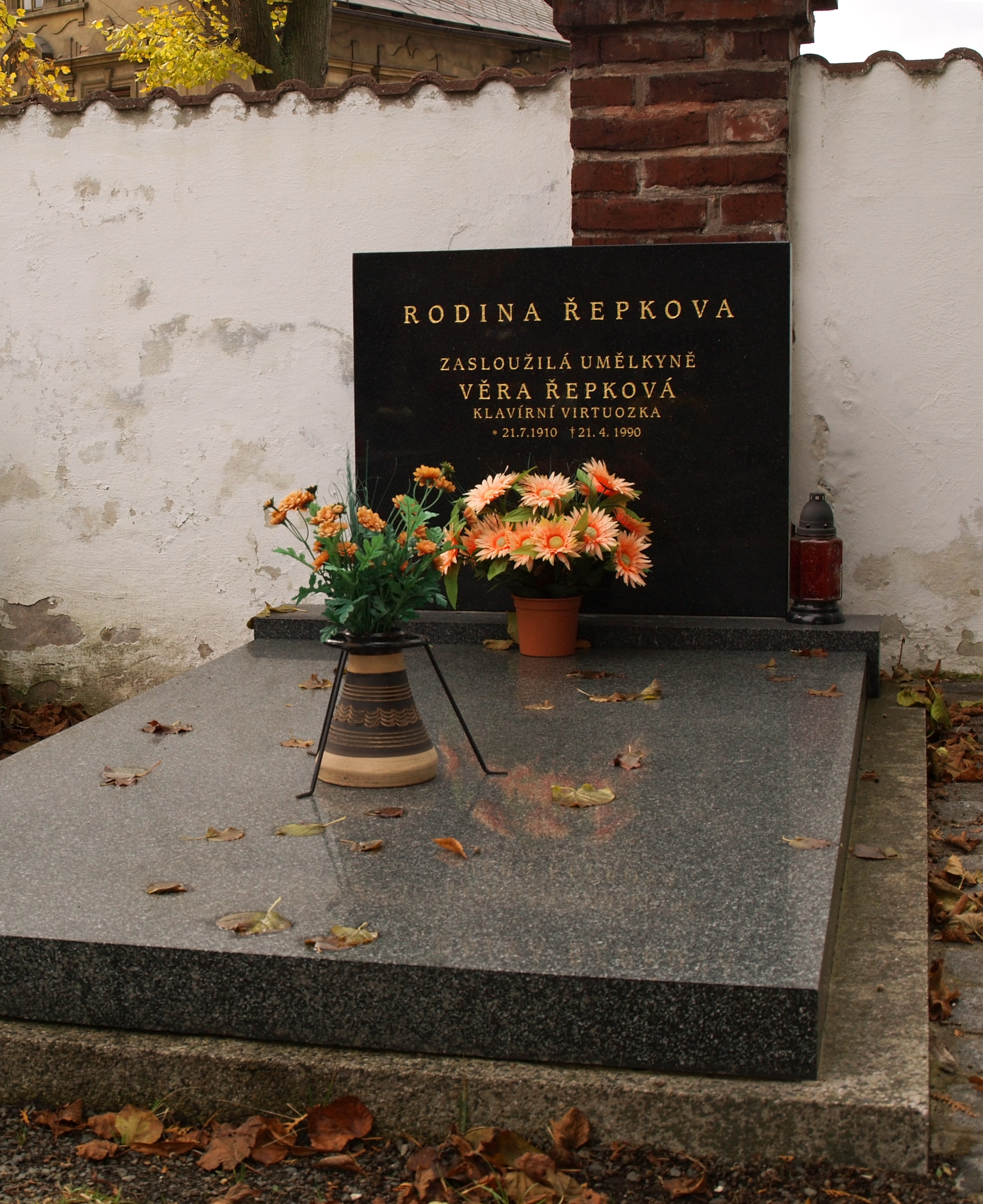 Grave of Věra Řepková, cemetery in Košťálov.